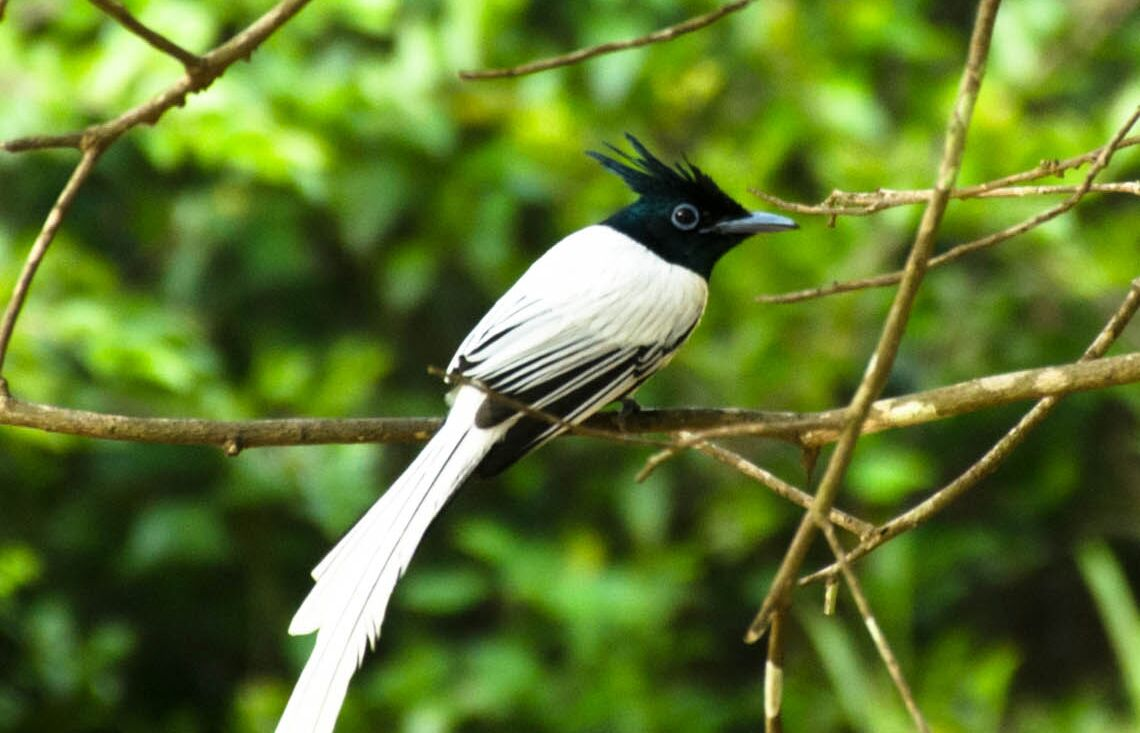 The majority of the birds in this genus are resident and a few are migratory. In Sri Lanka, white-morph Indian Paradise flycatchers are widely known as 'Sudu Redi Hora'. These long tailed birds could be seen during a safari in Sri Lanka.